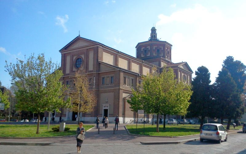 Santa Maria Assunta church in Cernusco sul Naviglio, Italy